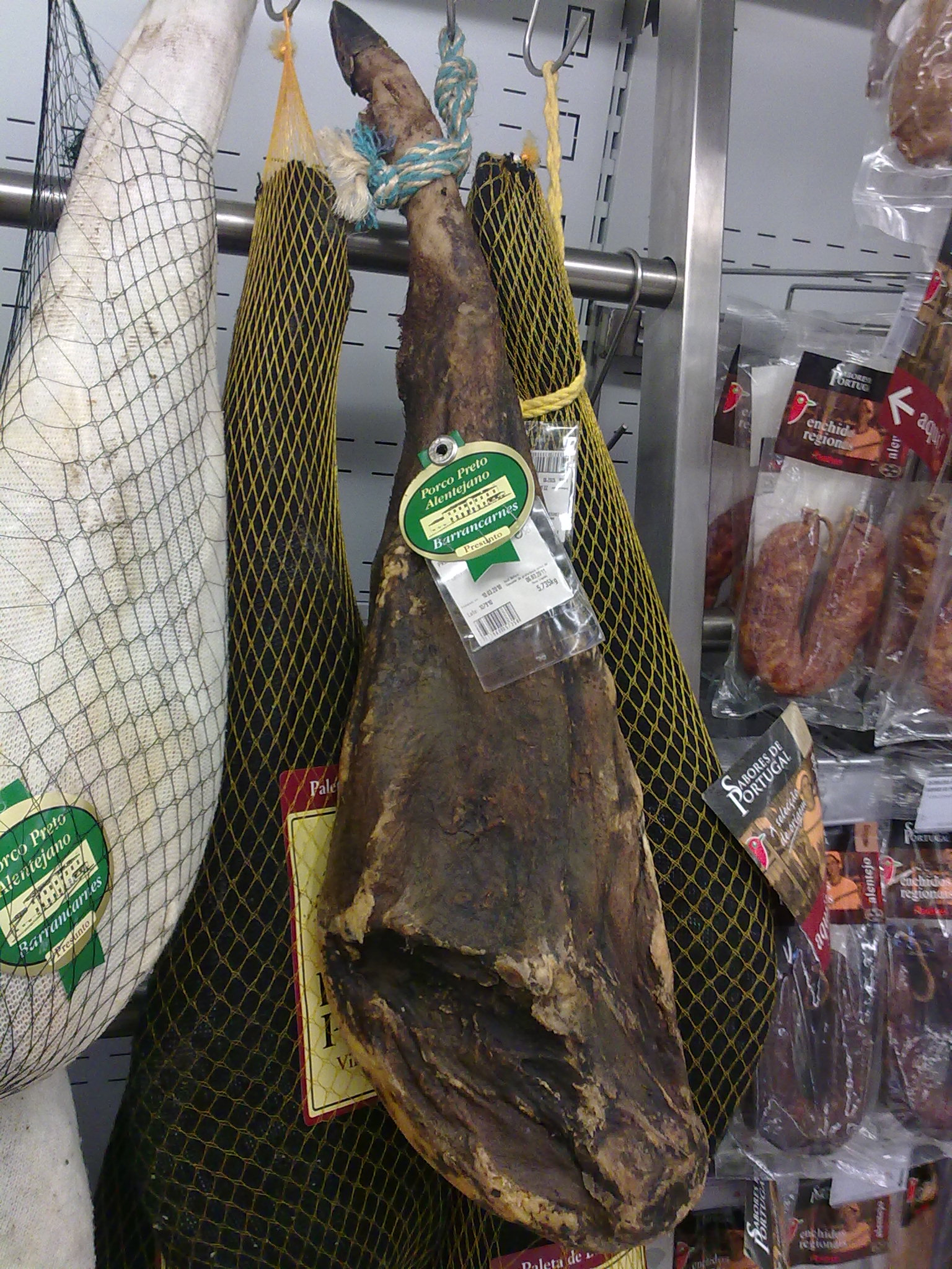 Presunto (ham) from Barrancos, Portugal.